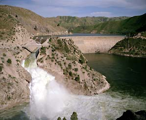 Downstream view of the Arrowrock Dam on the Boise River near Boise in Boise County, Idaho, United States. Constructed in 1912, the dam is listed on the National Register of Historic Places.